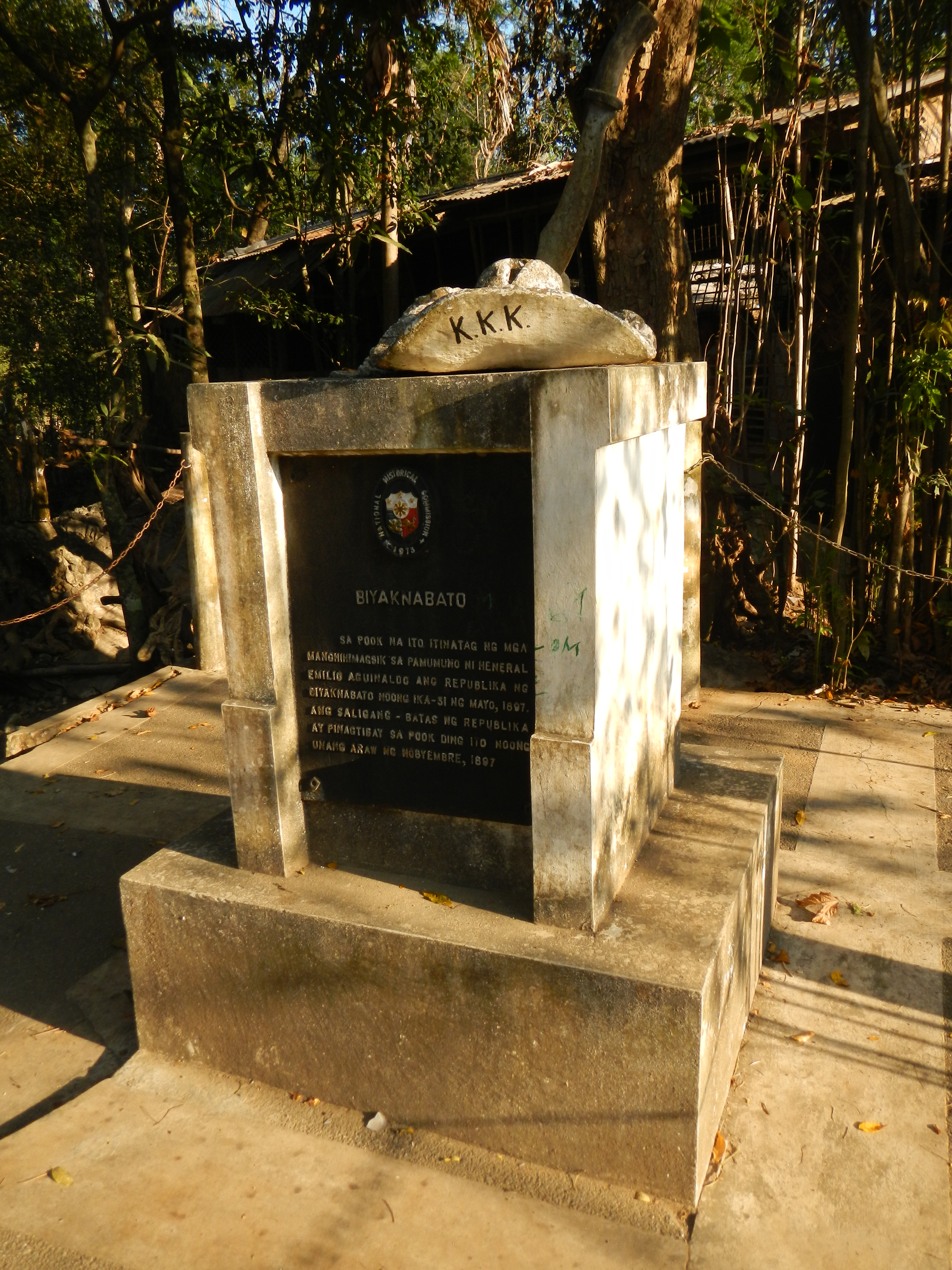 [1]Biak-na-Bato National Park - Mount Susong Dalaga and Tilandong Falls are also popular attractions inside the park. [2]Republic of Biak-na-Bato [3]Breast-shaped hill San Miguel, Bulacan[4]